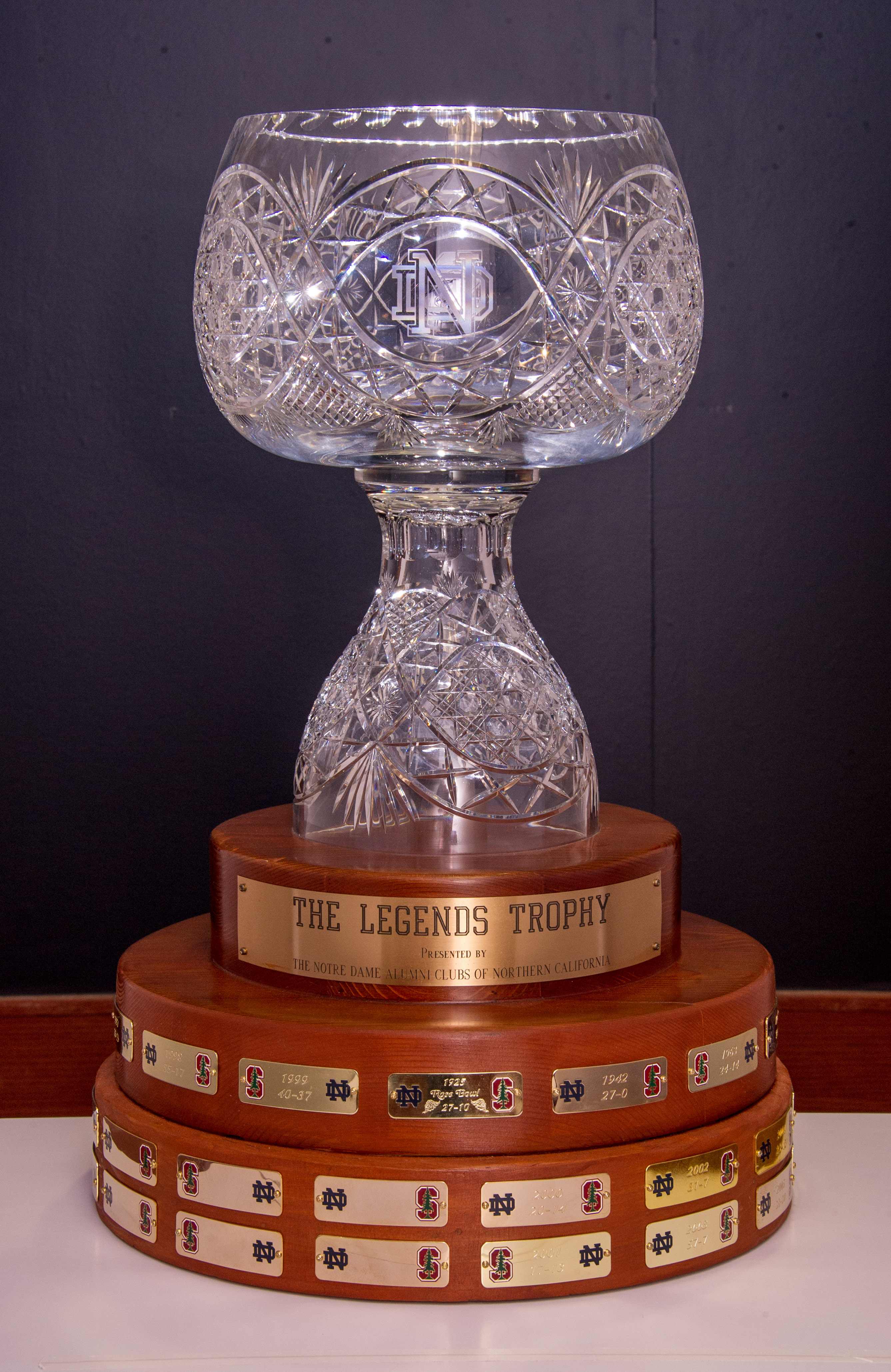 Trophy with modified game score plates to enable posting of future game results without enlarging the redwood base.